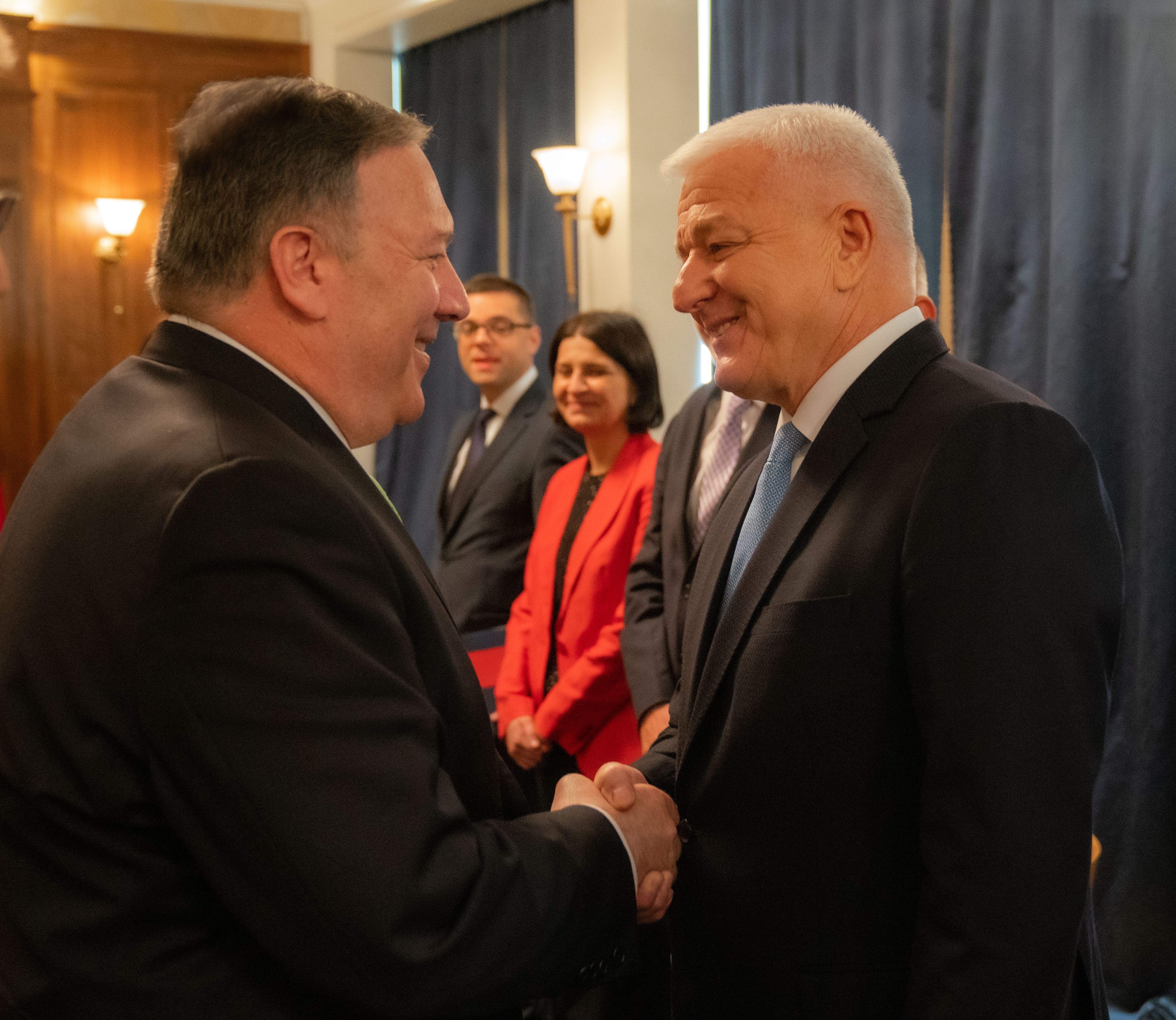 U.S. Secretary of State Michael R. Pompeo participates in a bilat with Prime Minister Dusko Markovic and Foreign Minister Srdjan Darmanovic in Montenegro, on October 4, 2019. [State Department photo by Ron Przysucha/ Public Domain]